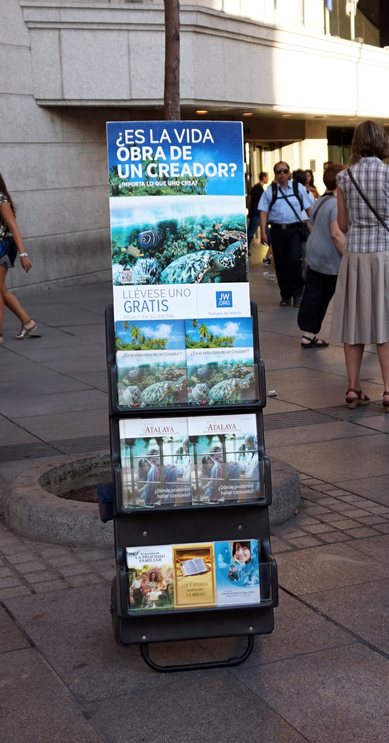 Jehovah's Witnesses material on the square Plaza del Callao in Madrid, Spain. This photograph was taken with a Sony Alpha a5000.